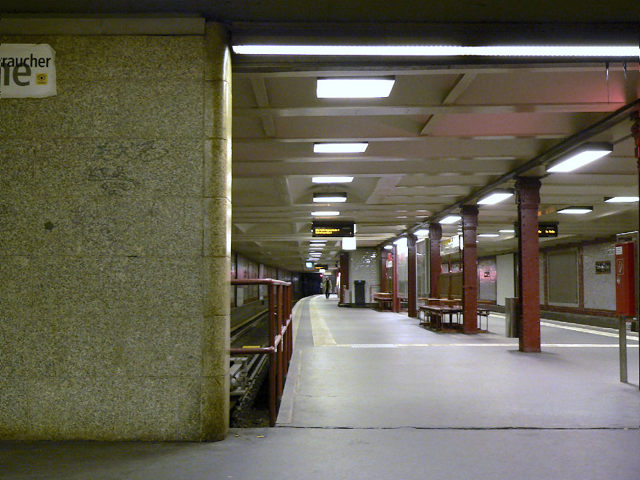 Berlin subway station "Innsbrucker Platz". Line U4 ends just behind this brick wall.